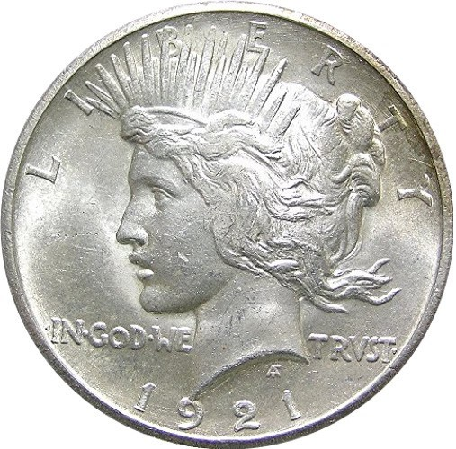 1921 silver "Peace Dollar" coin, USA. Obverse.